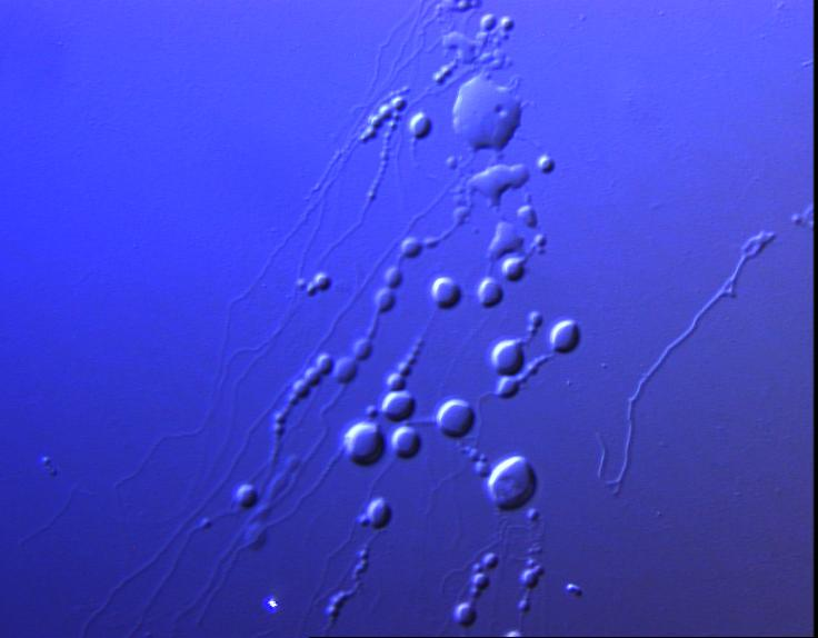 Sarfus image of lipid vesicles adsorbed on trimethoxysilane surface (scale bar: 20µm)